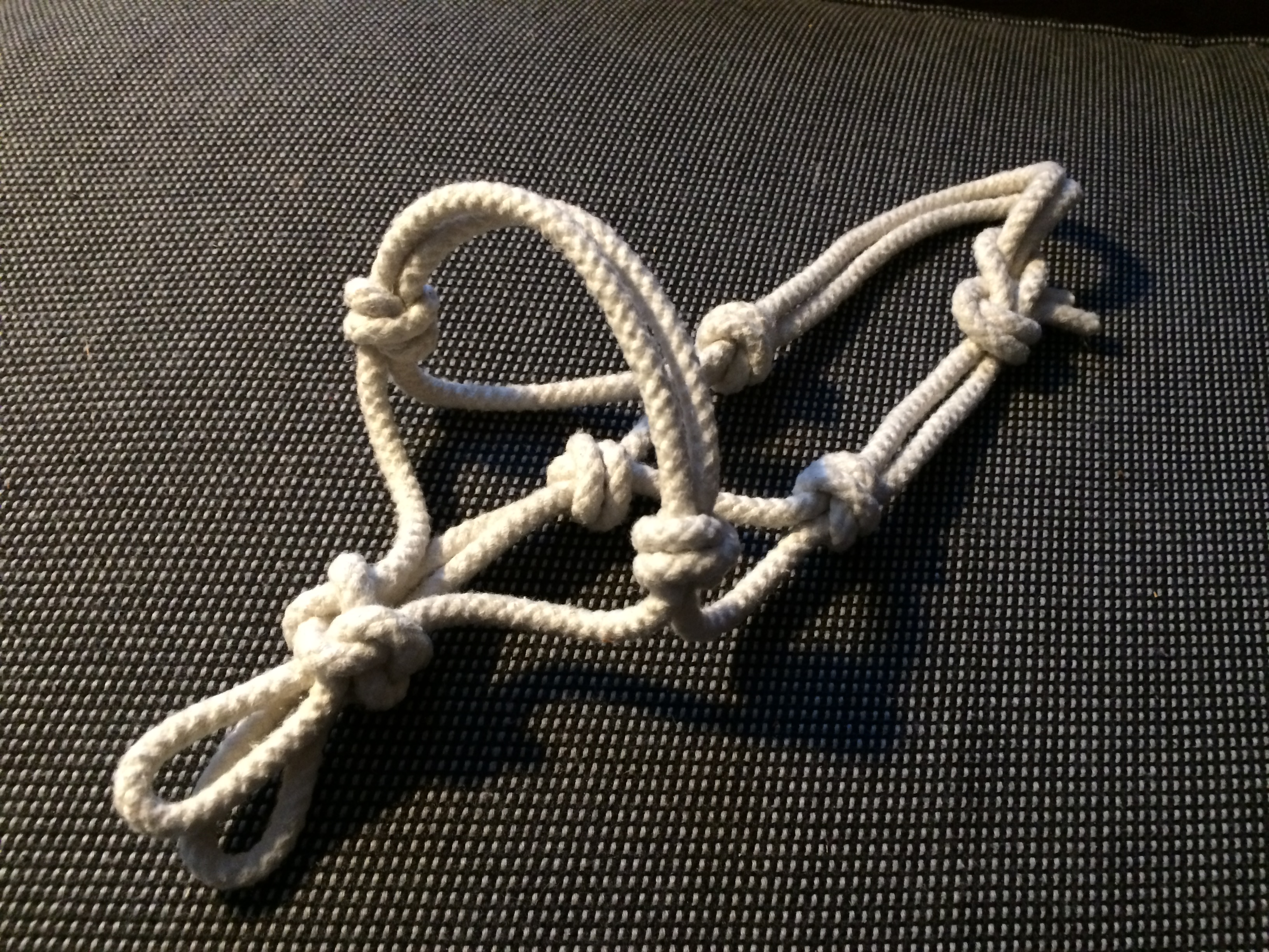 Rope halter with 1 Fiador knot, 5 real lover knots, and 1 sheet bend